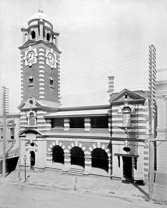 Ipswich Post Office, Brisbane Street, Ipswich.